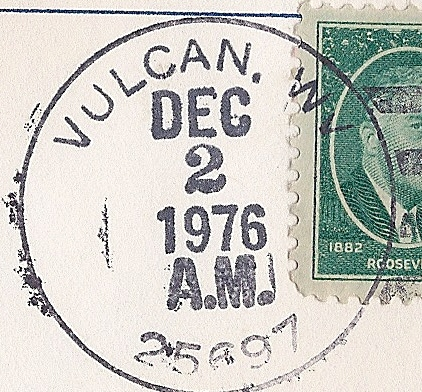 scanned correspondence